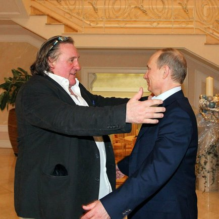 Gérard Depardieu and Vladimir Putin, Sochi, Russia, 2013-01-06.